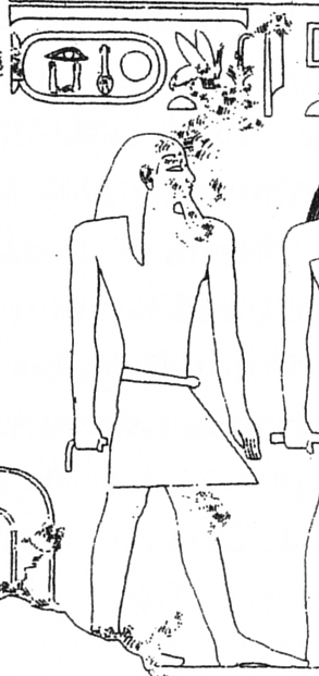 Fragment of a relief from the mortuary temple fo the pyramid of Sahura with subsequently revamped depiction of King Neferirkara